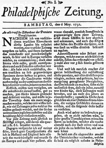 First edition of Benjamin Franklin's Philadelphischer Zeitung